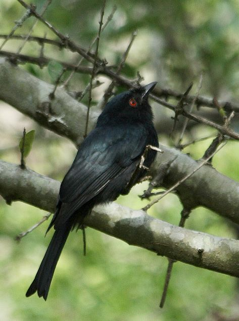 Square-tailed Drongo (Dicrurus ludwigii). Location: Mkhuze Game Reserve, South Africa. Smaller than the Fork-tailed Drongo, with a less-forked tail, and found within forest canopy (sand forest in this case). Distinguished from most other black birds by its red eye.